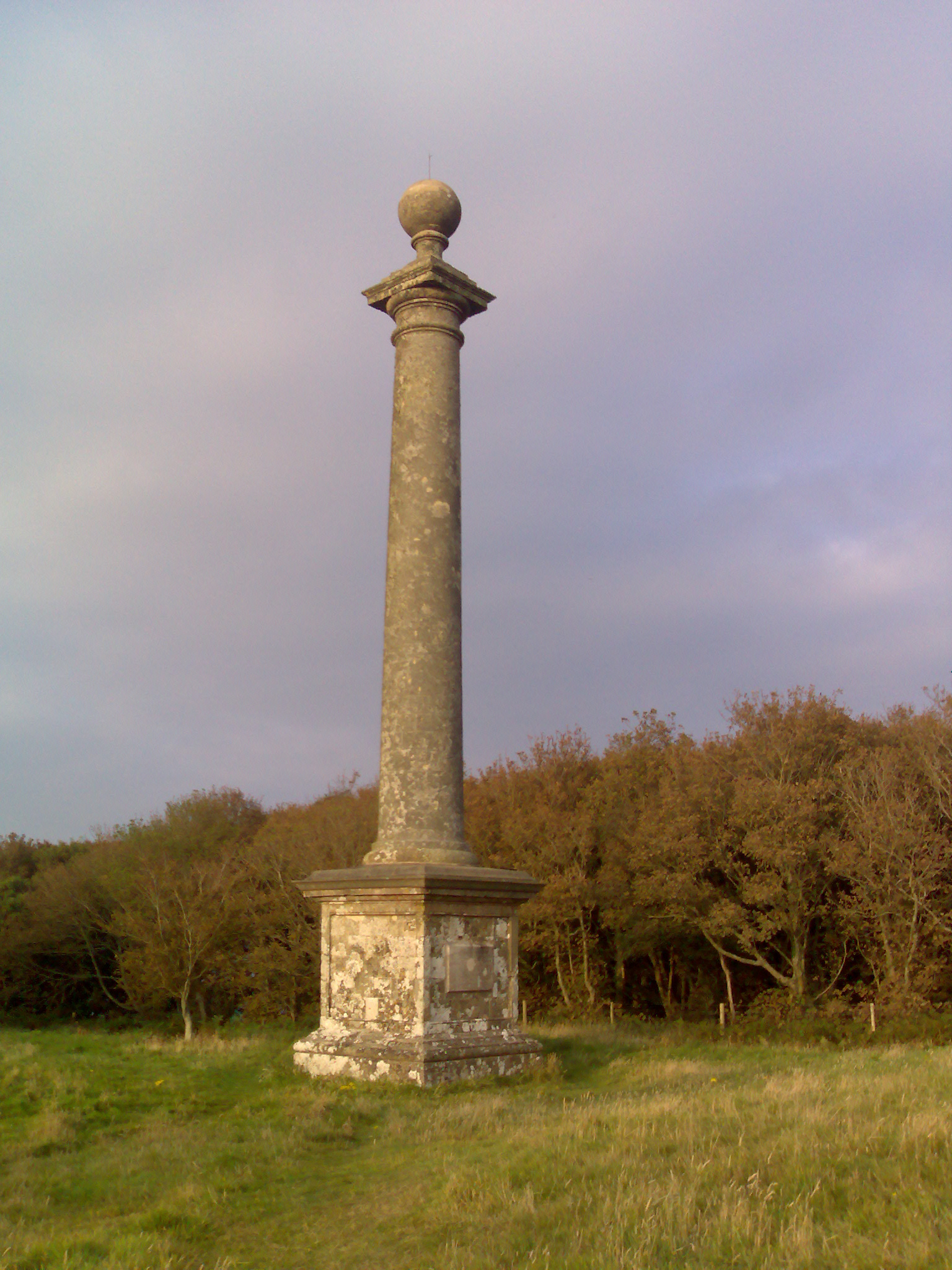 The Hoy Monument on St. Catherine's Down